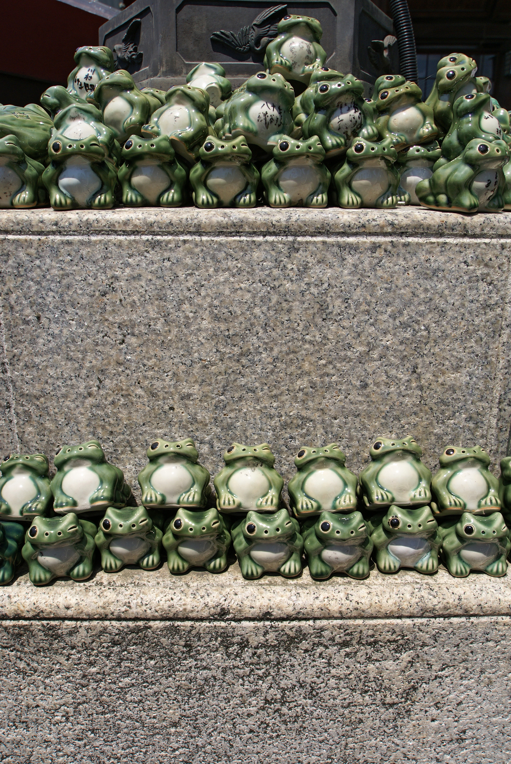 Kinomoto-Jizo-in in Kinomoto, Shiga prefecture, Japan